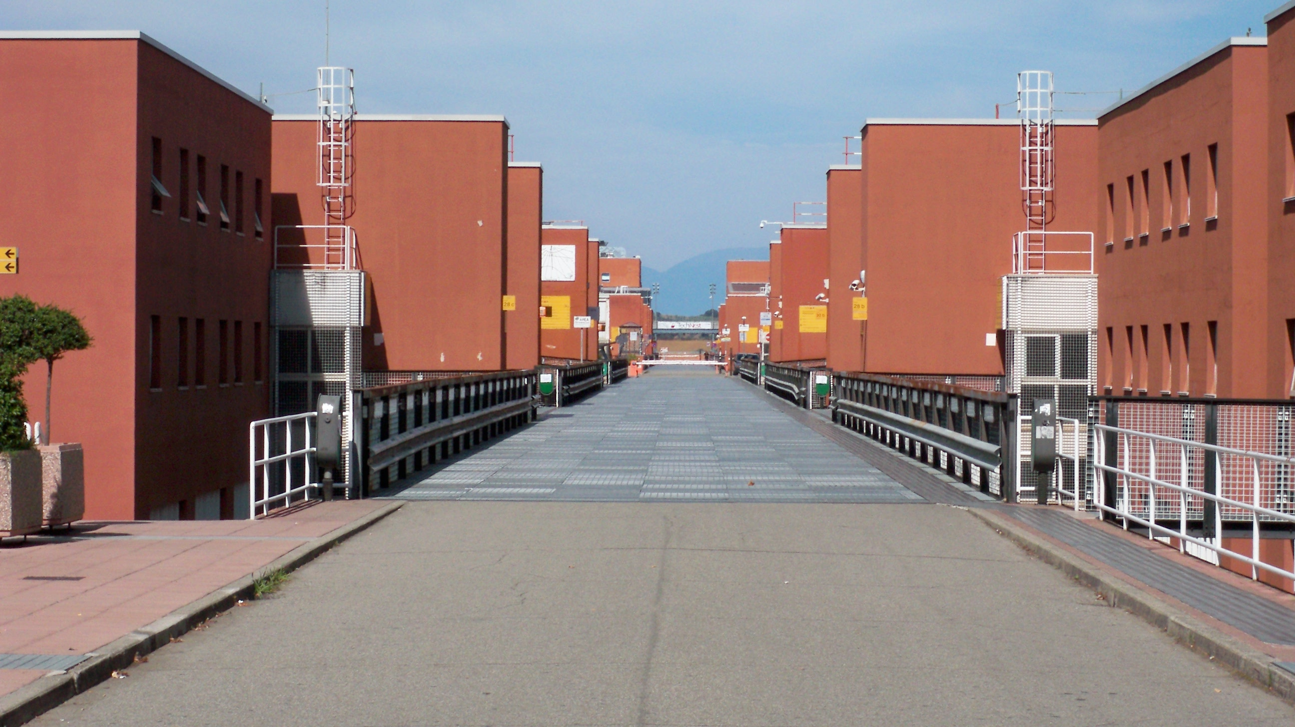 The University of Calabria UNICAL